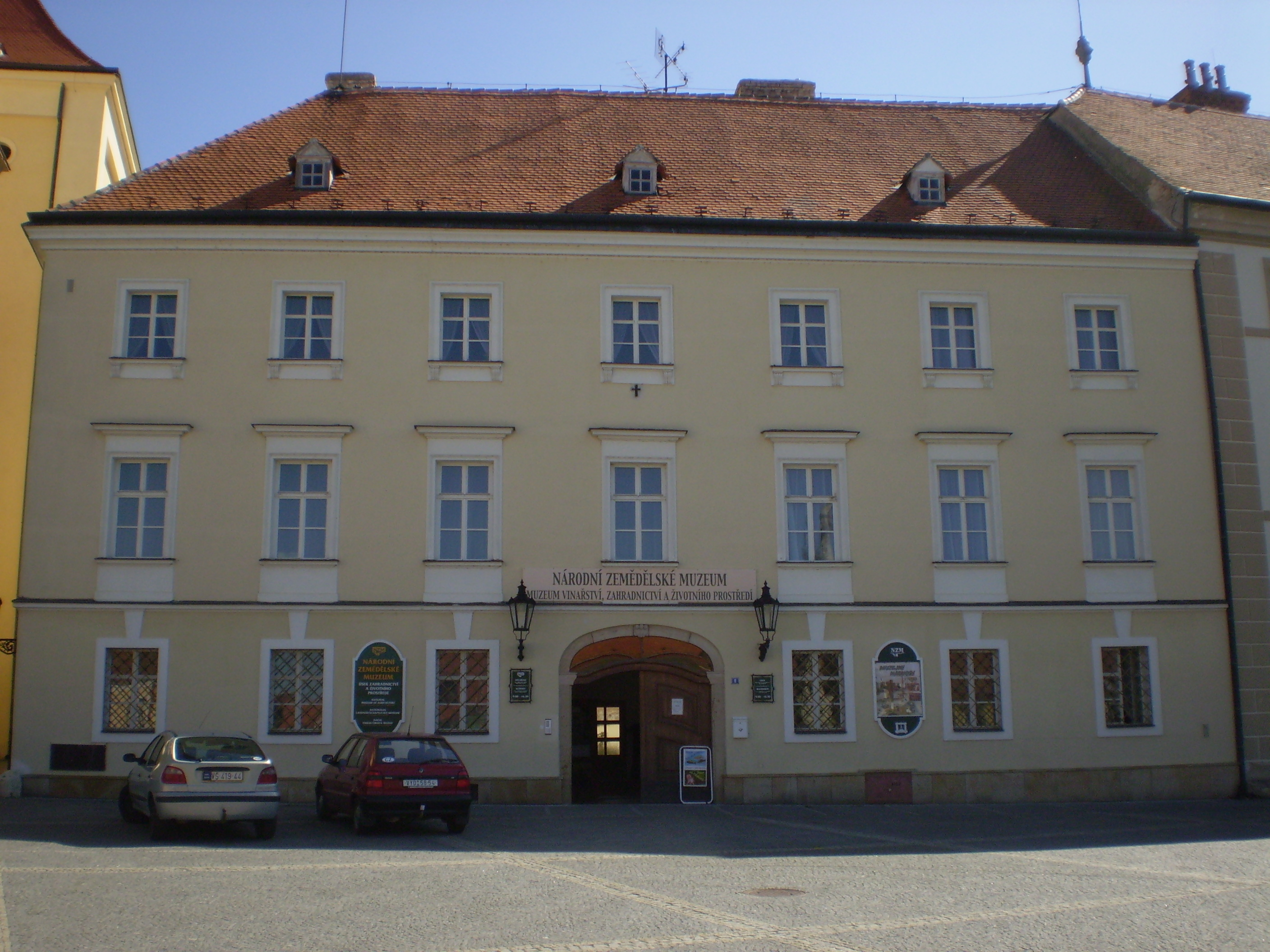 Valtice, Břeclav District, Czechia.